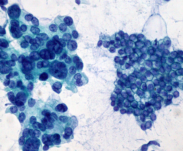 Adenocarcinoma on left, normal duct lining on right Pathological and histological images courtesy of Ed Uthman at flickr.